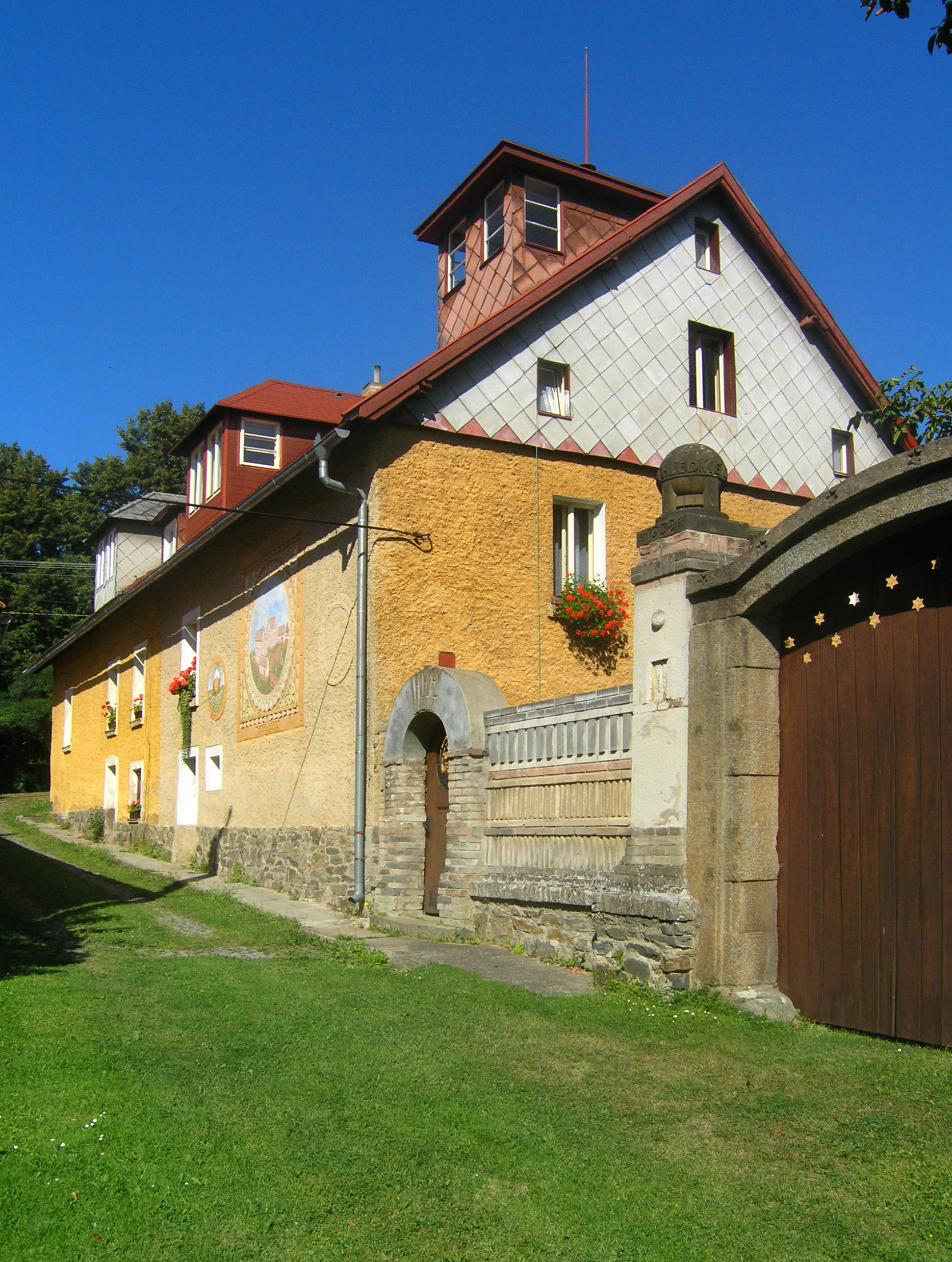 House by Miličín Castle, Czech Republic